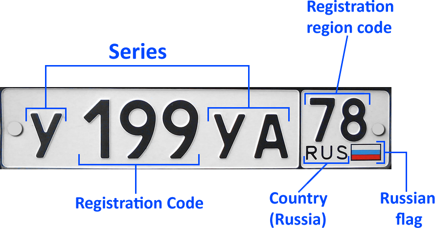 Russian License Plate (With description). English version